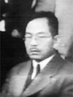 Park Hon-yong, Korean Independent activists, journalists, educators